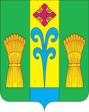 Coat of arms of Novoumanskoye municipality, Leningradski Raion, Krasnodar Krai, Russia.